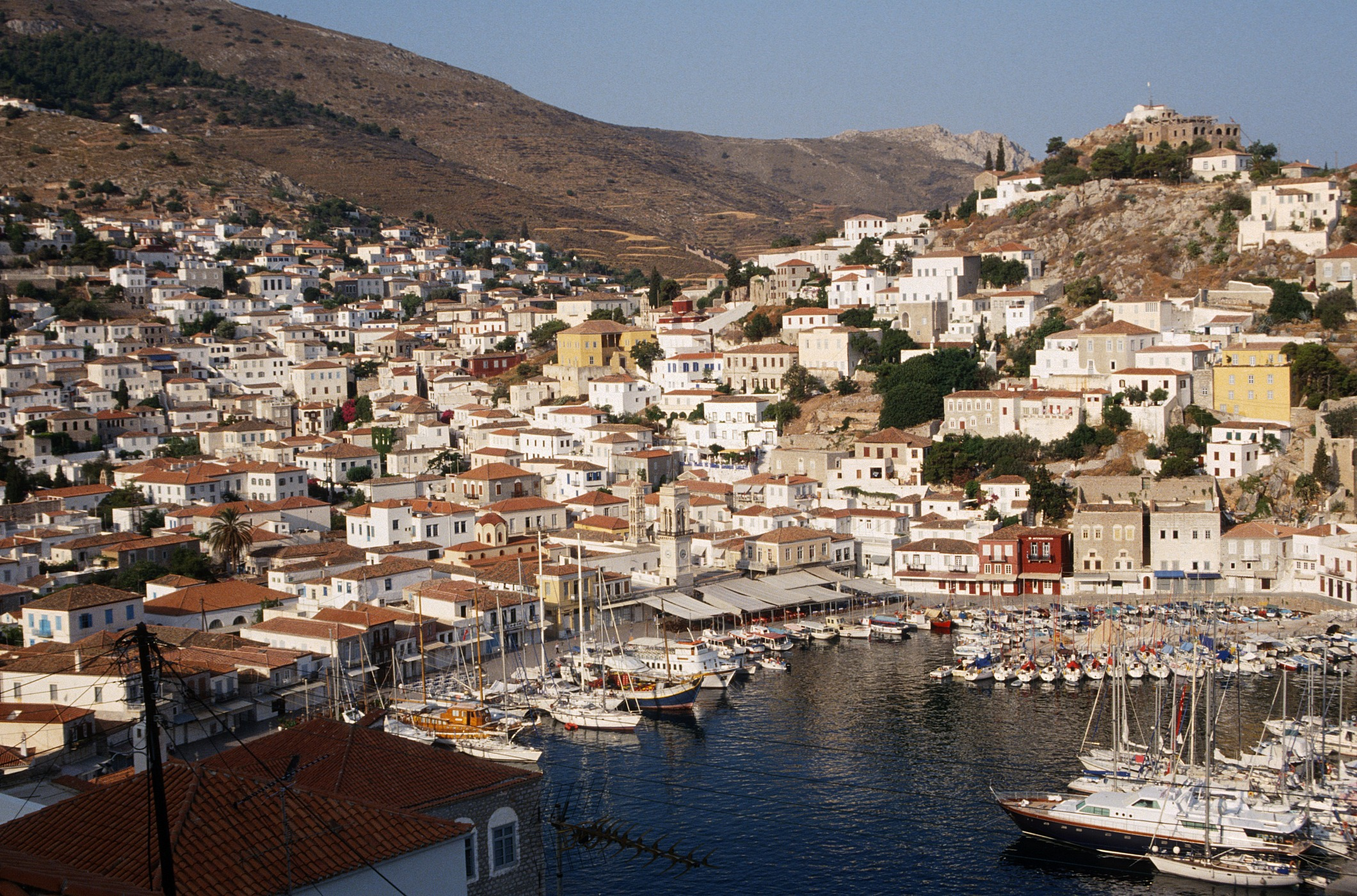 The town of Hydra on Hydra island, Greece